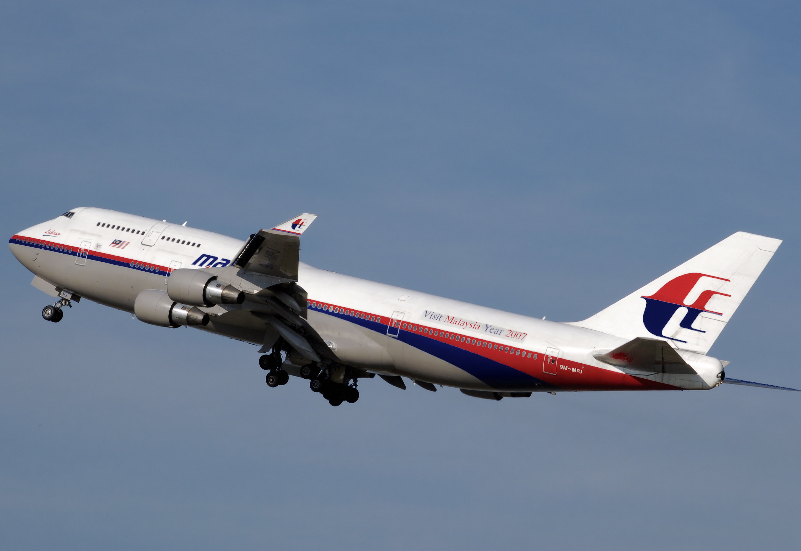 Malaysia Airlines Boeing 747-400 (9M-MPJ) (Sorry about the filename error, the airline is Malaysia Airlines, not Malaysian Airlines).